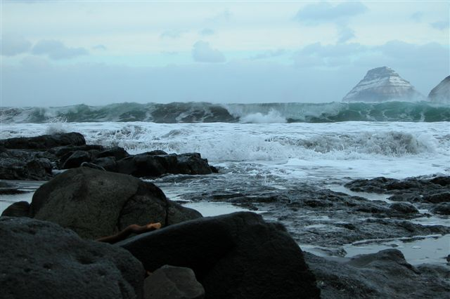 View to Lítla Dímun fom the beach of Sandvík